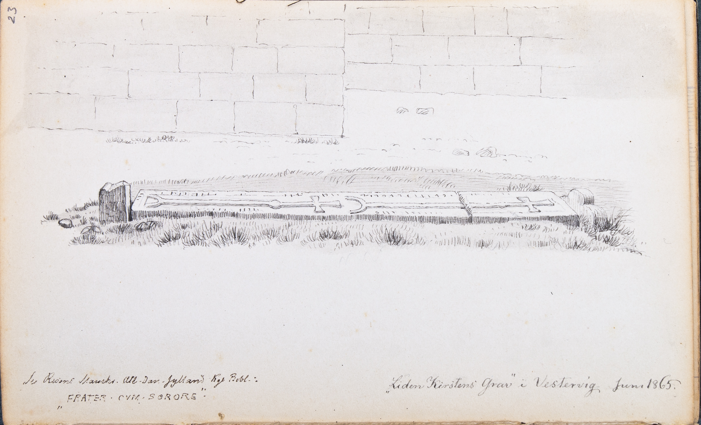 Details from Jacob Kornerup notebooks, housed in the archives of the Danish National Museum